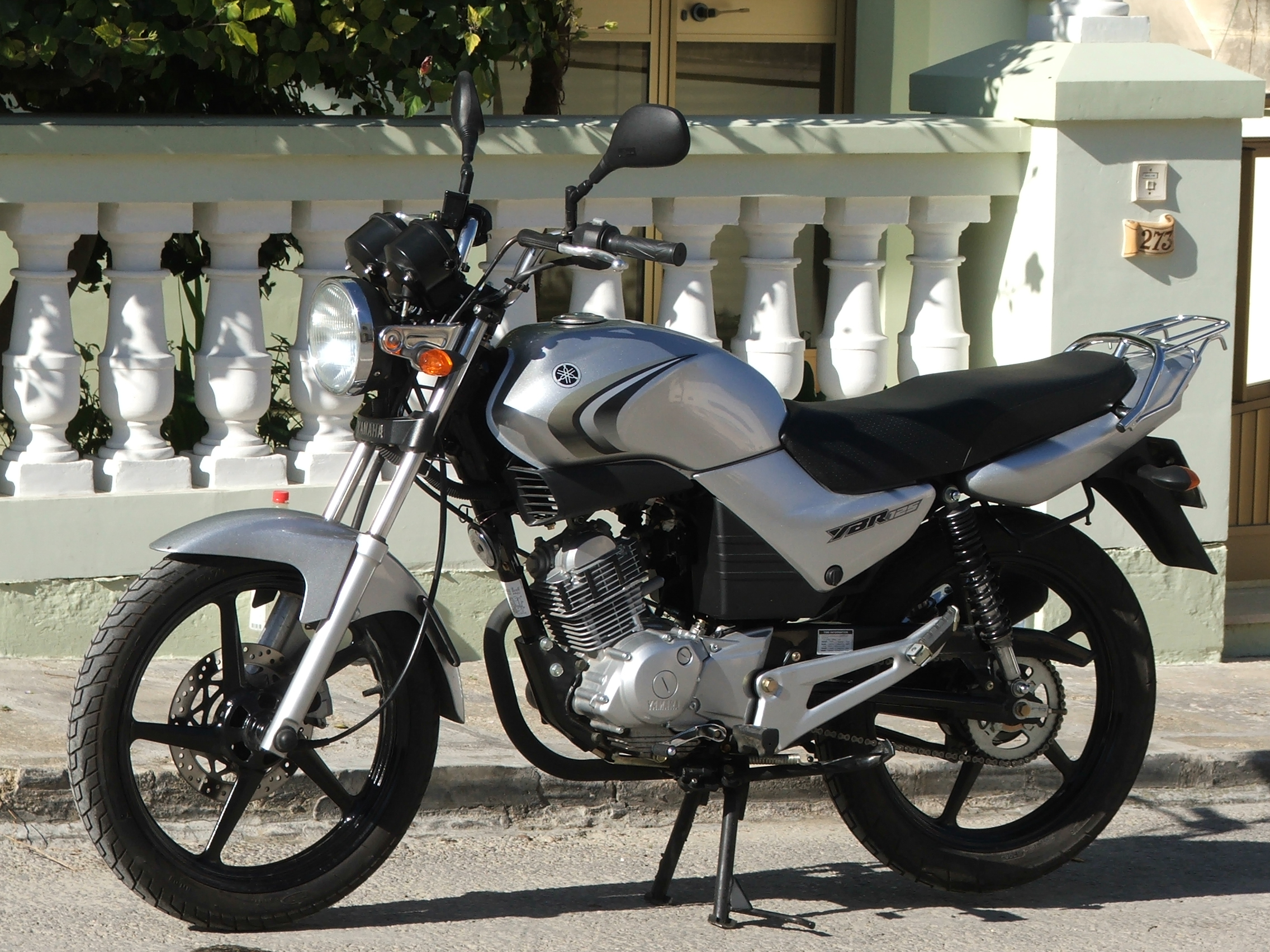 2008 Yamaha YBR125 (Fuel Injection - EU Spec)